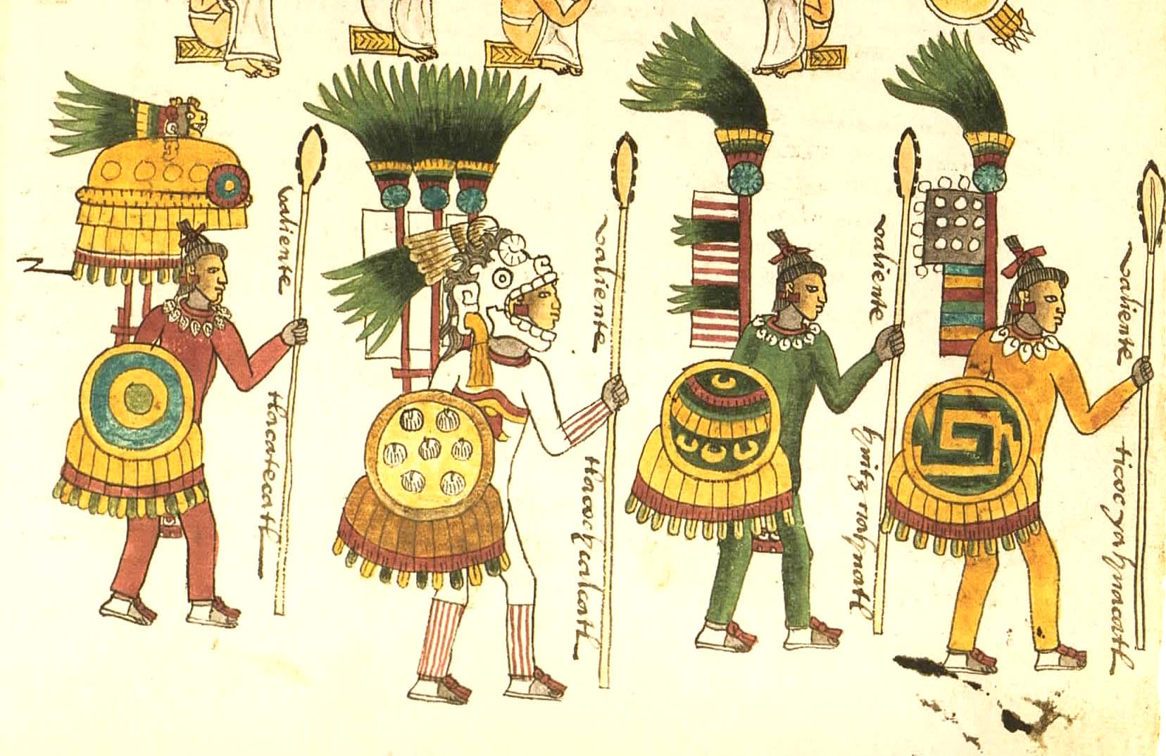 Aztec warriors. Six differing levels of military achievement are depicted in Codex Mendoza for young men who are destined to become priests. The first is a novice who has had made one capture. He wears a simple ichcahuipilli or quilted armour jacket. Those who had made two captures were awarded a white feather ornamented tlahuiztli, a tightly fitting body suit. A third capture entitled the warrior-priest to a wear a green tlahuiztli. A fourth capture entitles a priest to wear a remarkable black and white conical hat adopted from the Huaxtec people of Veracruz. The white dots and swirl on his shield signify a constellation of stars. Five captures entitles the warrior to carry a special shield ornamented with an eagle's foot while the highest ranking soldiers were awarded a yellow tlahuiztli and a helmet carved in the shape of a mountain lion.